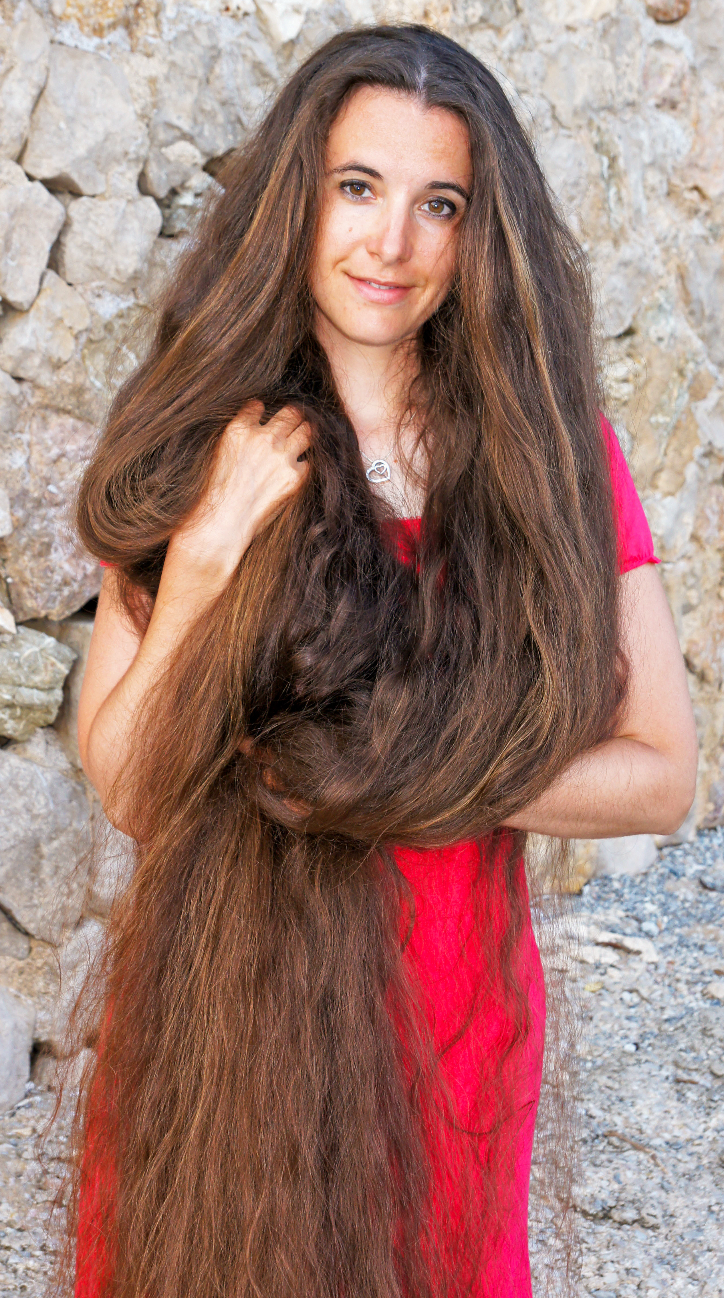 Marianne Ernst, long hair model Not everybody can get such long hair as Marianne Ernst, a German long hair model. At the beginning of March, 2016 her hair was 174 cm long. Hair lengths of more than one metre are rare because hair falls out after a certain time.